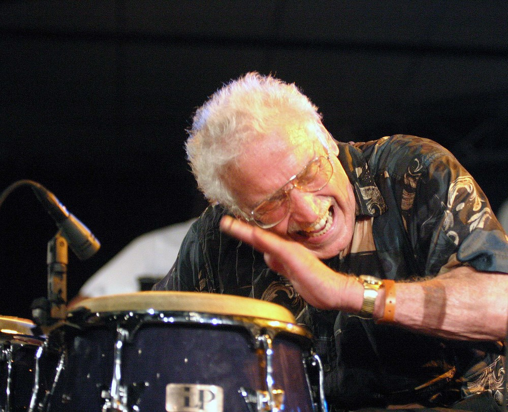 Percussionist Jack Costanzo performing in 2003. Photo by Tom Beetz